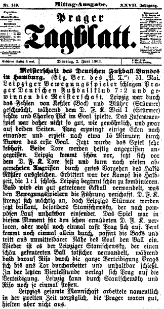 Prager Tagblatt vom 2. Juni 1903. Berichterstattung vom Finale der ersten deutschen Fußballmeisterschaft (VfB Leipzig - DFK Prag 7:2). Prager Tagblatt (German language daily newspaper, Prague) from 2 June 1903. Report from the final of the first German association football championship (VfB Leipzig - DFK Prag 7-2).